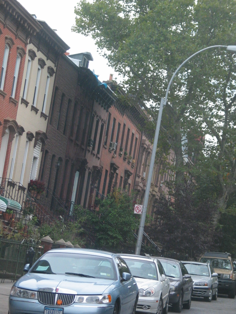 The fabulous residence buildings in Park Slope section of Brooklyn